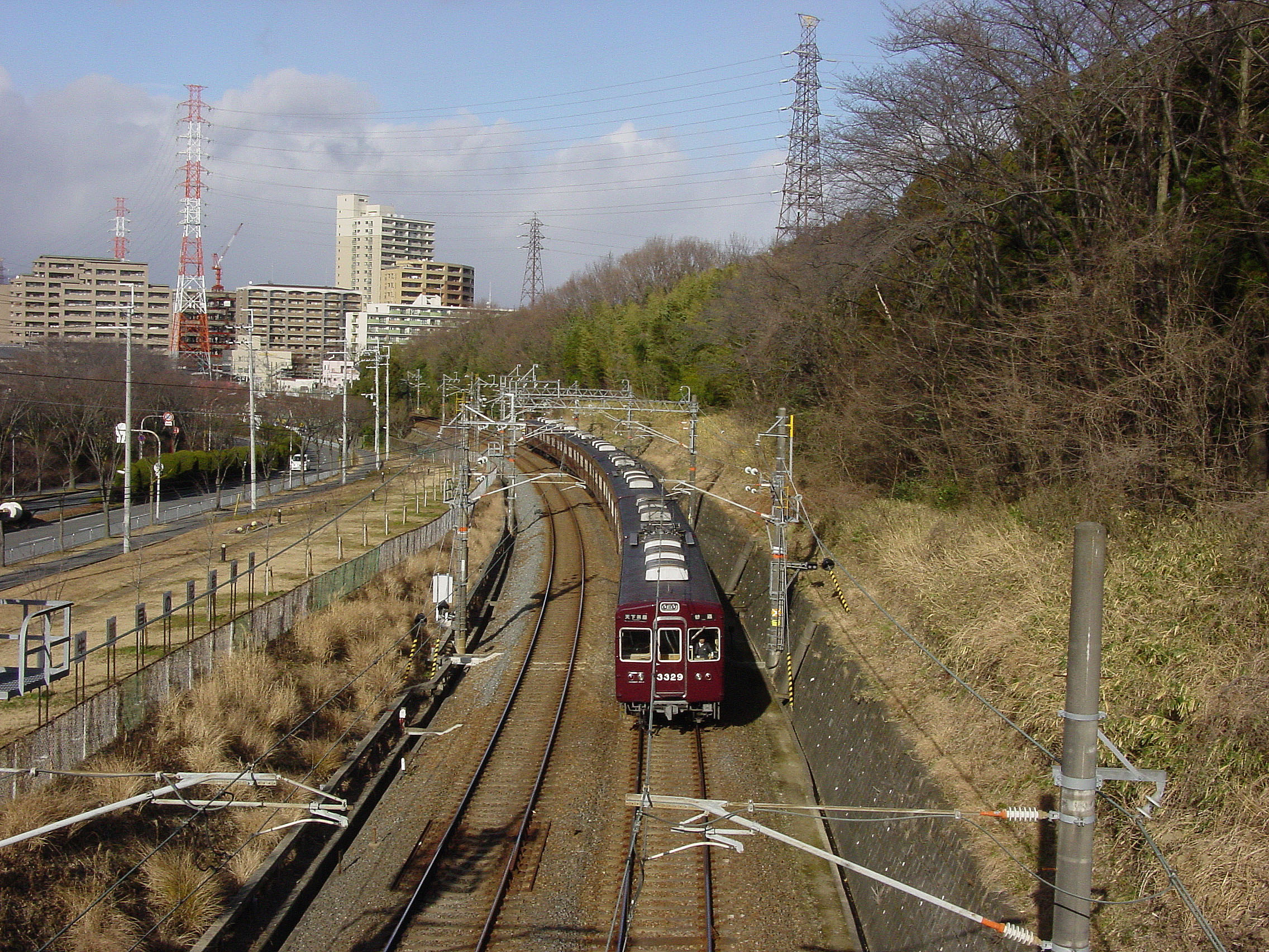 Hankyū Senri Line